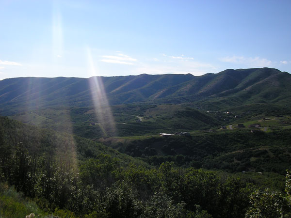 Author: Cory Bailey. I took this picture myself while bicycling up Emigration Canyon in Utah.